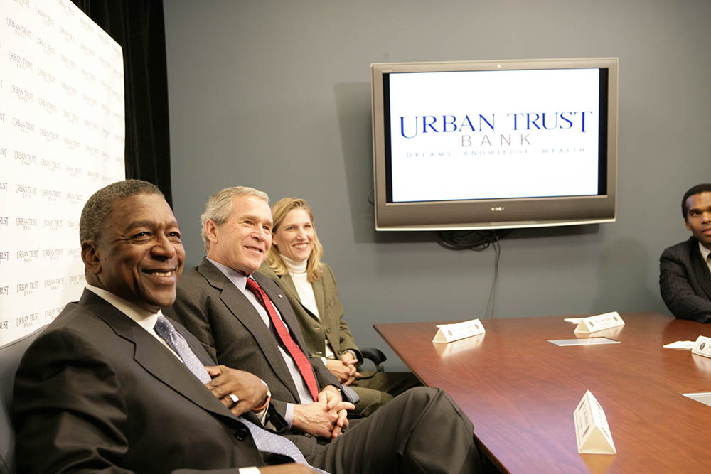 President George W. Bush sits with Bob Johnson, founder and chairman of the RLJ Companies, and Kathy Boden, right, president and CEO of Blue House Water Solutions , during a meeting to discuss the economy with small business owners and community bankers, Monday, Oct. 23, 2006 at the Urban Trust Bank in Washington, D.C.